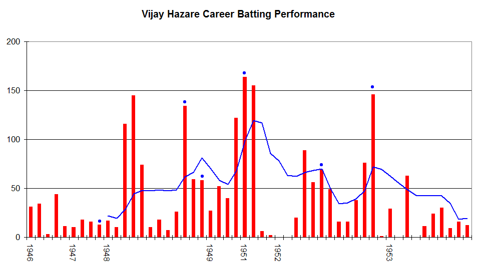 This graph details the Test Match performance of Vijay Hazare. It was created by Raven4x4x. The red bars indicate the player's test match innings, while the blue line shows the average of the ten most recent innings at that point. Note that this average cannot be calculated for the first nine innings. The blue dots indicate innings in which Hazare finished not-out. This graph was generated with Microsoft Excel 2002, using data from Cricinfo and .au.